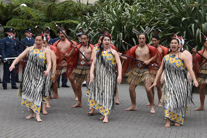 Haka Powhiri